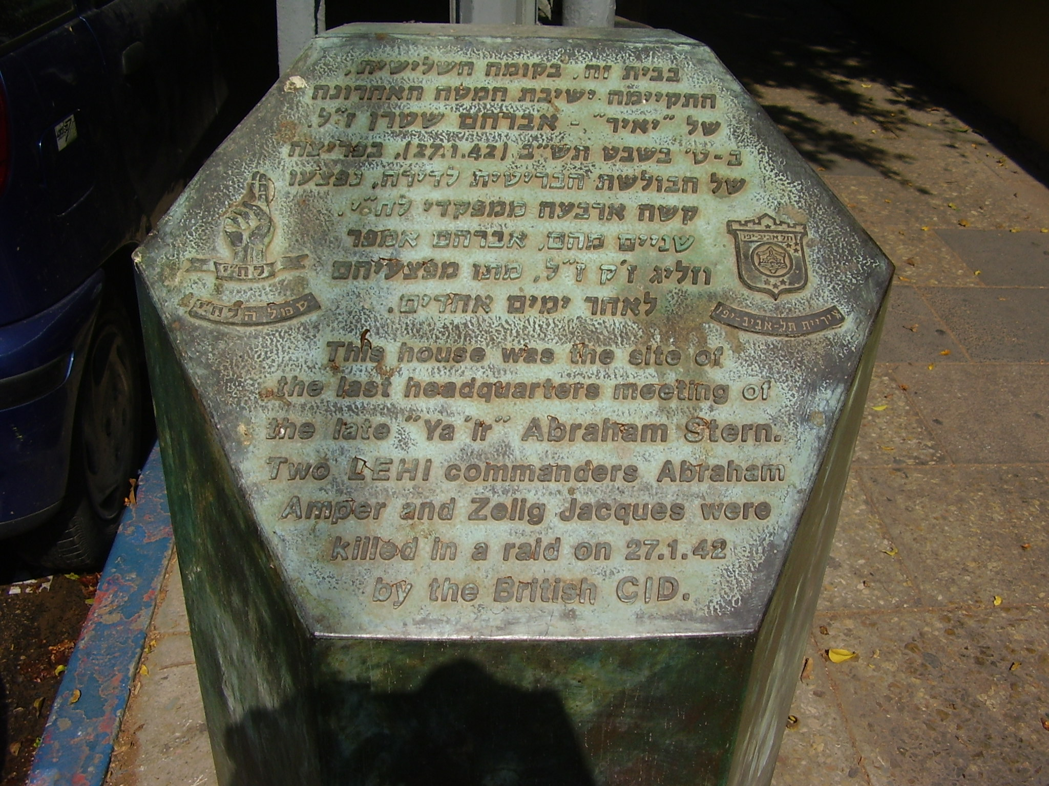 lehi (freedom fighters for israel) commemoration plaque in 30 dizengoff str., tel aviv